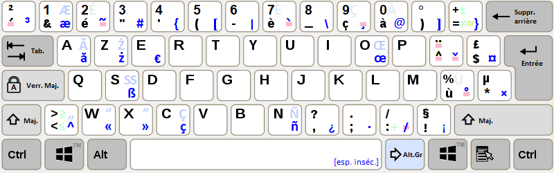 AZERTY French keyboard layout with "FR-Campi" extended Windows keyboard driver